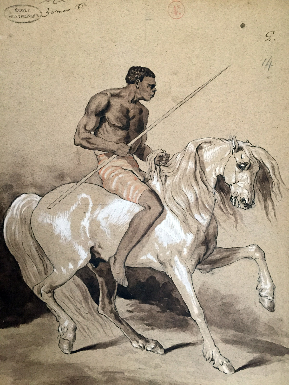 Drawing made by Paul Emile Flye Sainte Marie at Ecole Polytechnique in 1852.